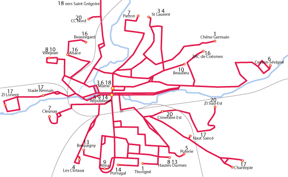 Bus map of Rennes in 1997